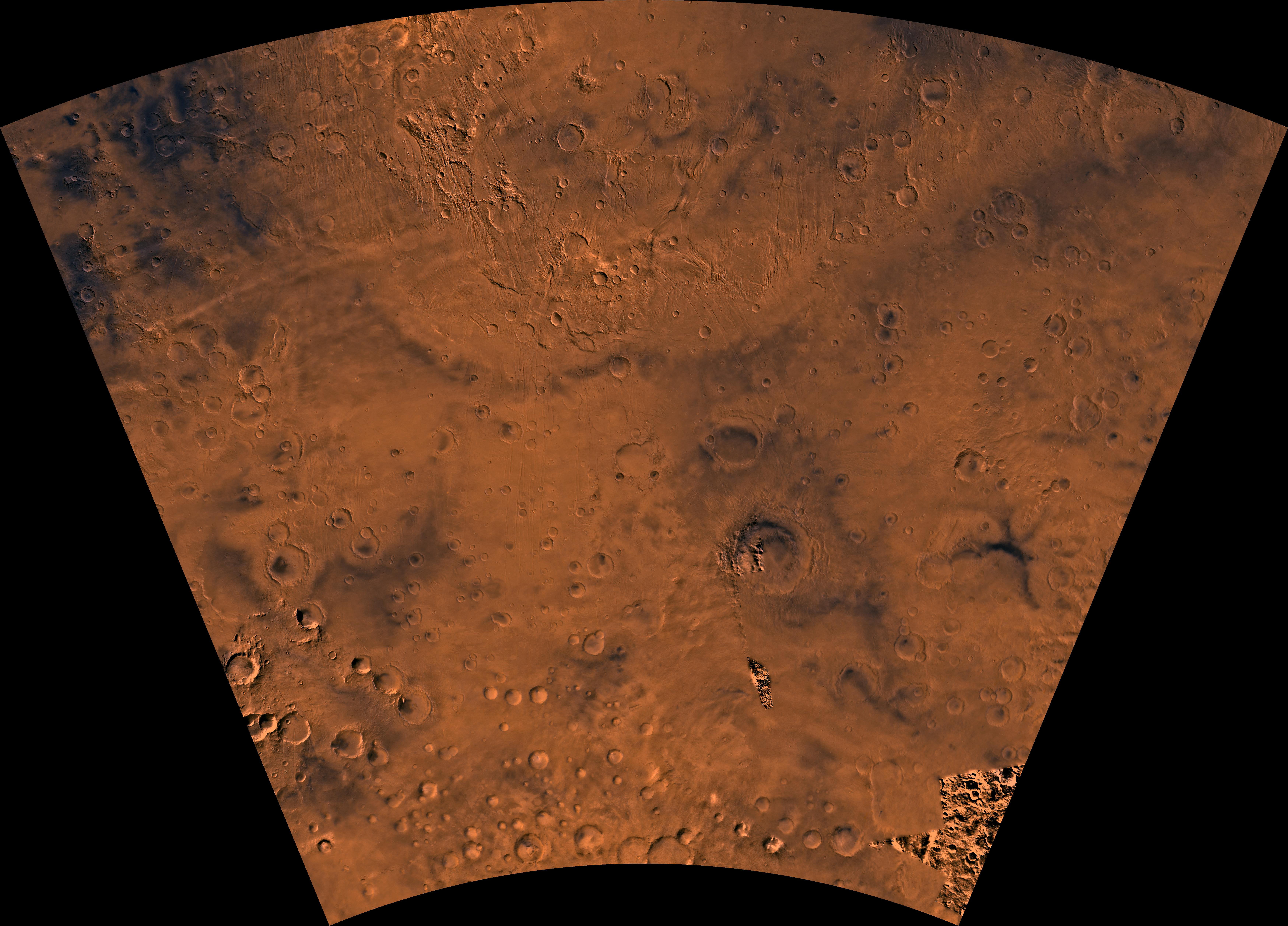 PIA00185: MC-25 Thaumasia Region Mars digital-image mosaic merged with color of the MC-25 quadrangle, Thaumasia region of Mars. In the northern part, a prominent physiographic feature, Thaumasia plateau, includes a complex array of small- and large-scale faults and ridges and ancient volcanoes. Channel systems, upturned beds, and large troughs occur in places along the southern edge of the plateau. In the southern part, the lowlands that surround the plateau include heavily cratered highland terrain and relatively smooth, low plains. The east-central part is marked by a relatively young large impact crater, Lowell. Lowell is one of several large, relatively young impact events on Mars that followed the period of heavy bombardment. Latitude range -65 to -30 degrees, longitude range 60 to 120 degrees.